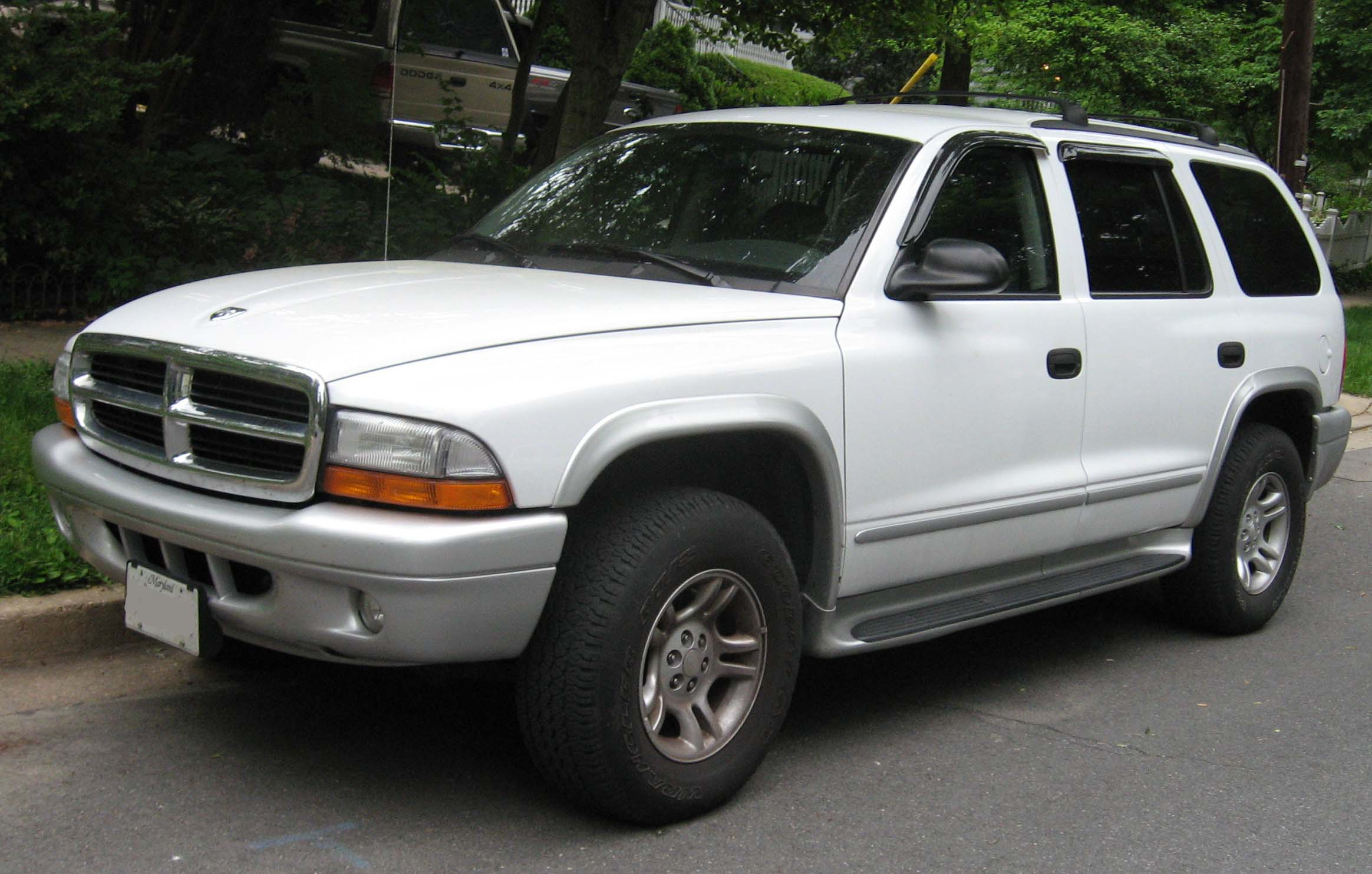 1998-2003 Dodge Durango photographed in USA.